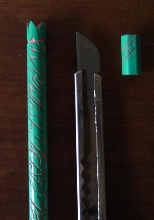 Pencil called "Midnight", carved by Renan Czajkowski.Poket knife and Midday`s Grimoire.